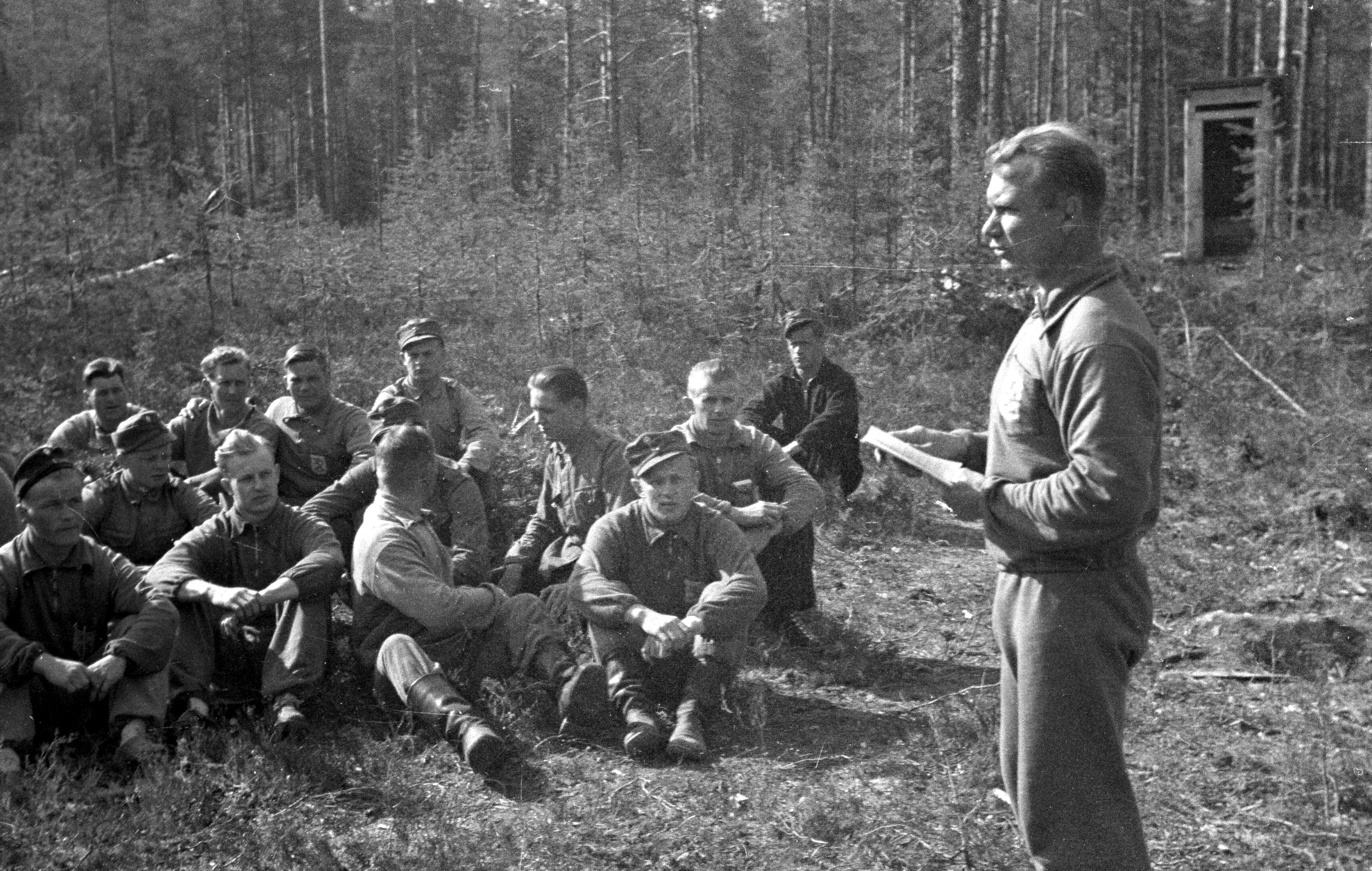 Photograph of the Finnish wrestler Aarne Reini (1906–1974) lecturing to soldiers, possibly to the members of the wrestling team of the army.